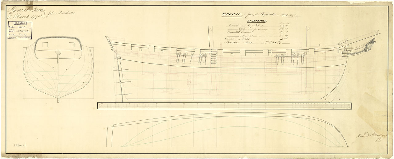 Plan showing the body plan with stern board outline and some decoration detail, sheer lines with inboard detail and figurehead, and long longitudinal half-breadth for Eugenia (captured 1797), a captured French privateer, as fitted at Plymouth as a 16-gun brig sloop. Signed by John Marshall [Master Shipwright, Plymouth Dockyard, 1795-1801]. Read more at